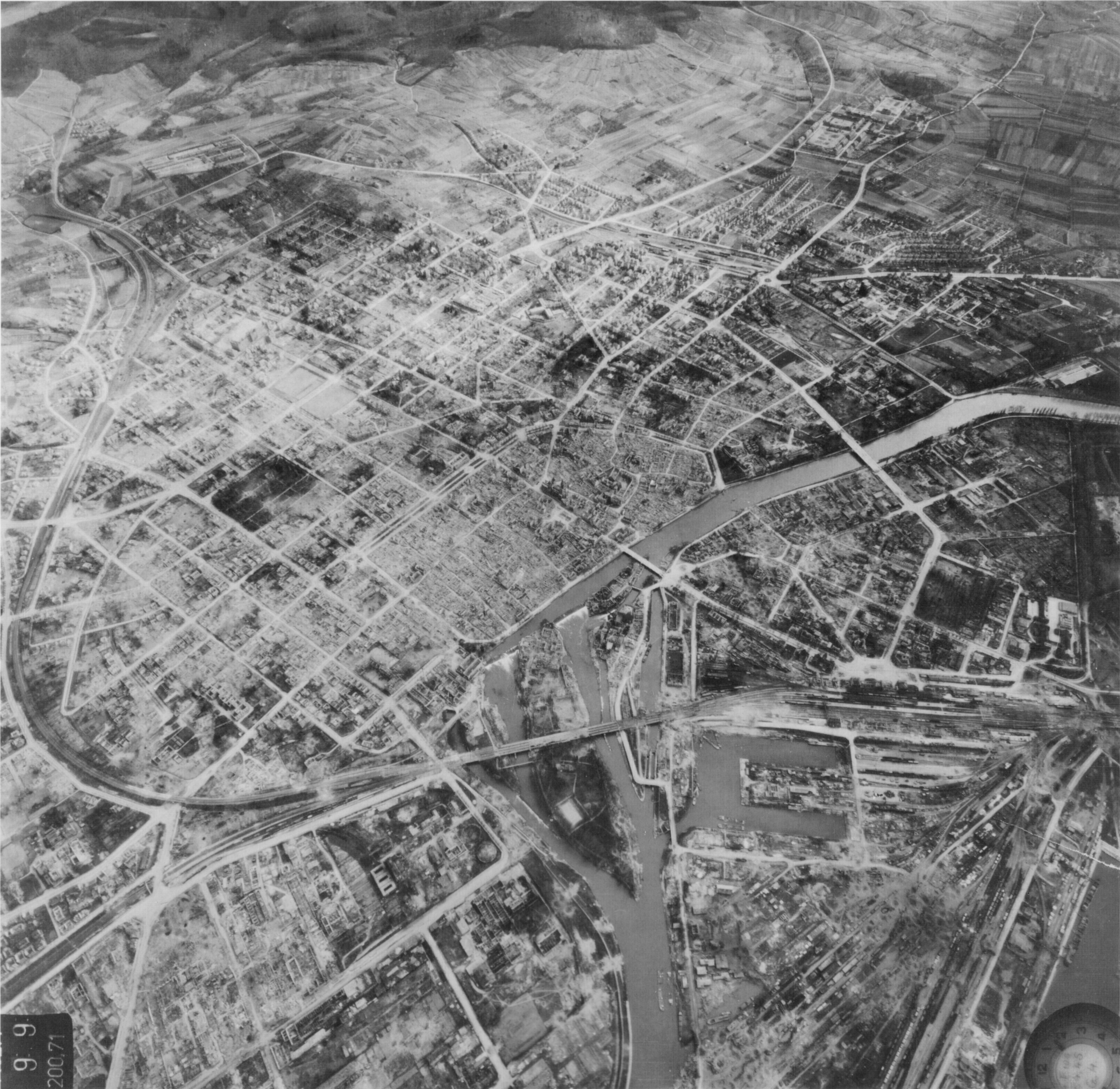 Aerial photo of the destroyed Heilbronn on April 1, 1945, taken from the Northwest